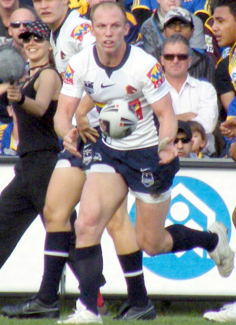 Darren Lockyer